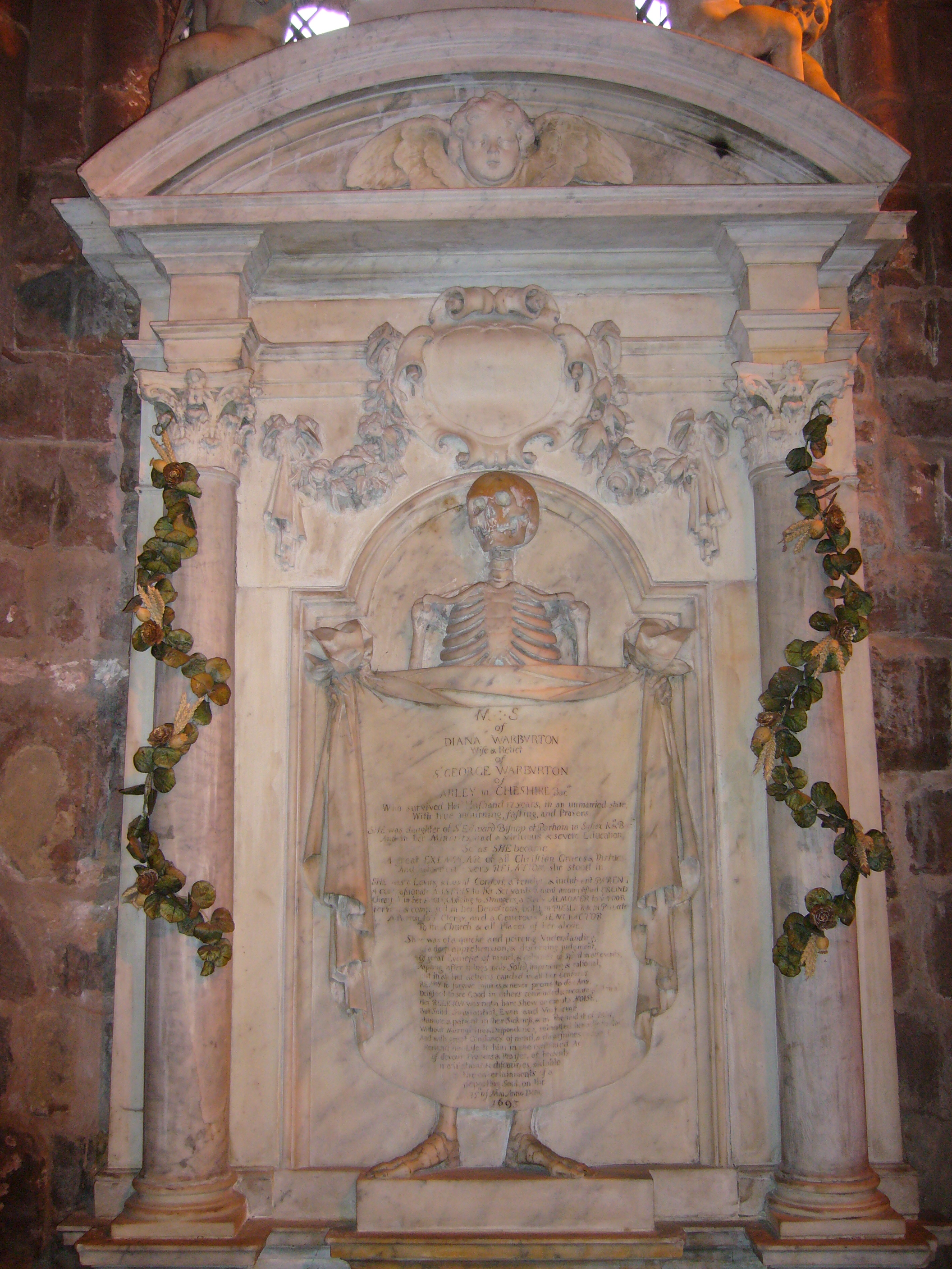 Partial view of Diana Warburton's tomb (dated 1693) in St John's Church Chester. The tomb was designed by Edward Pierce (d.1698), a pupil of Sir Christopher Wren and shows a "memento mori" skeleton.